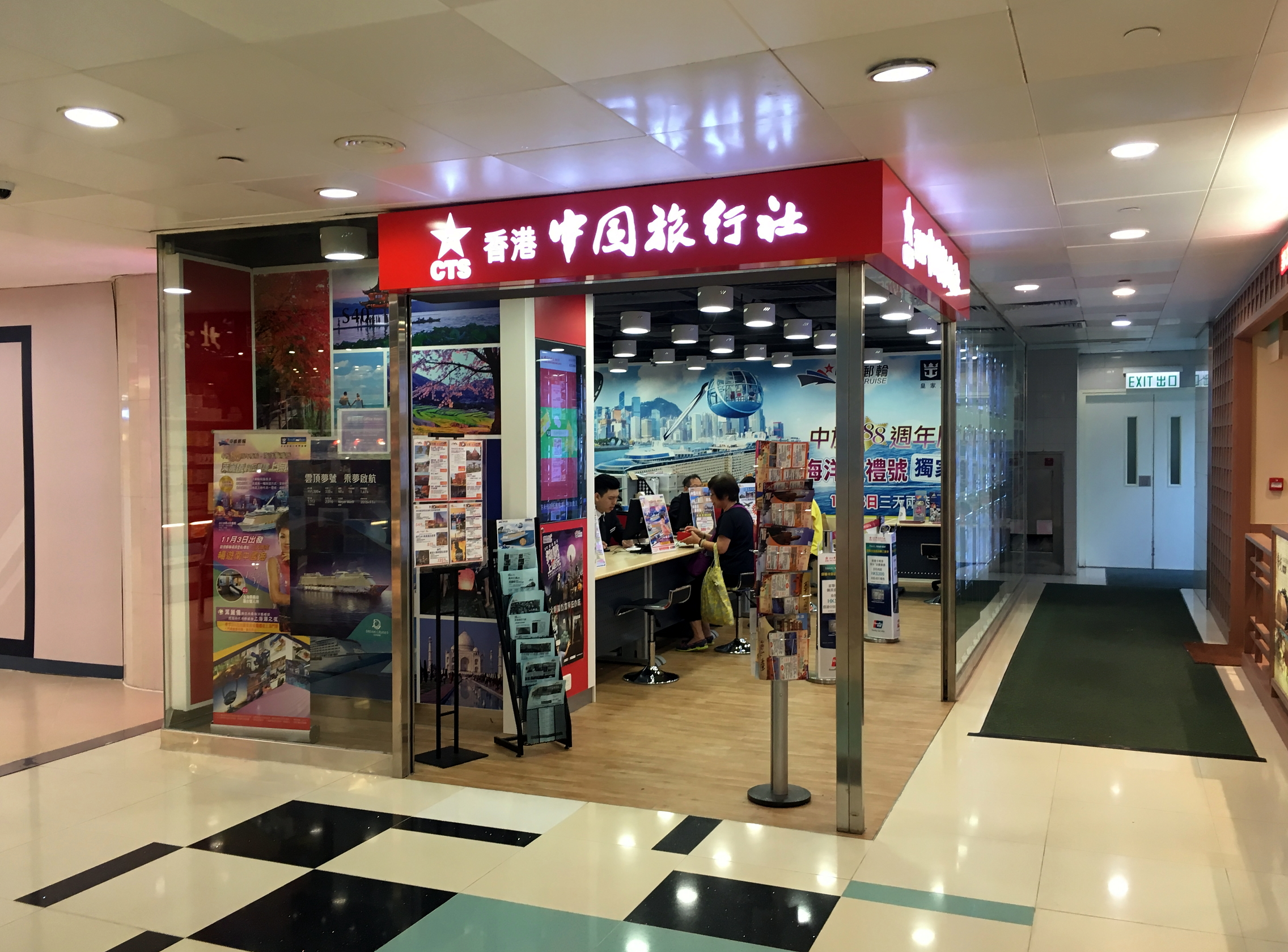 CTS in Kornhill Plaza